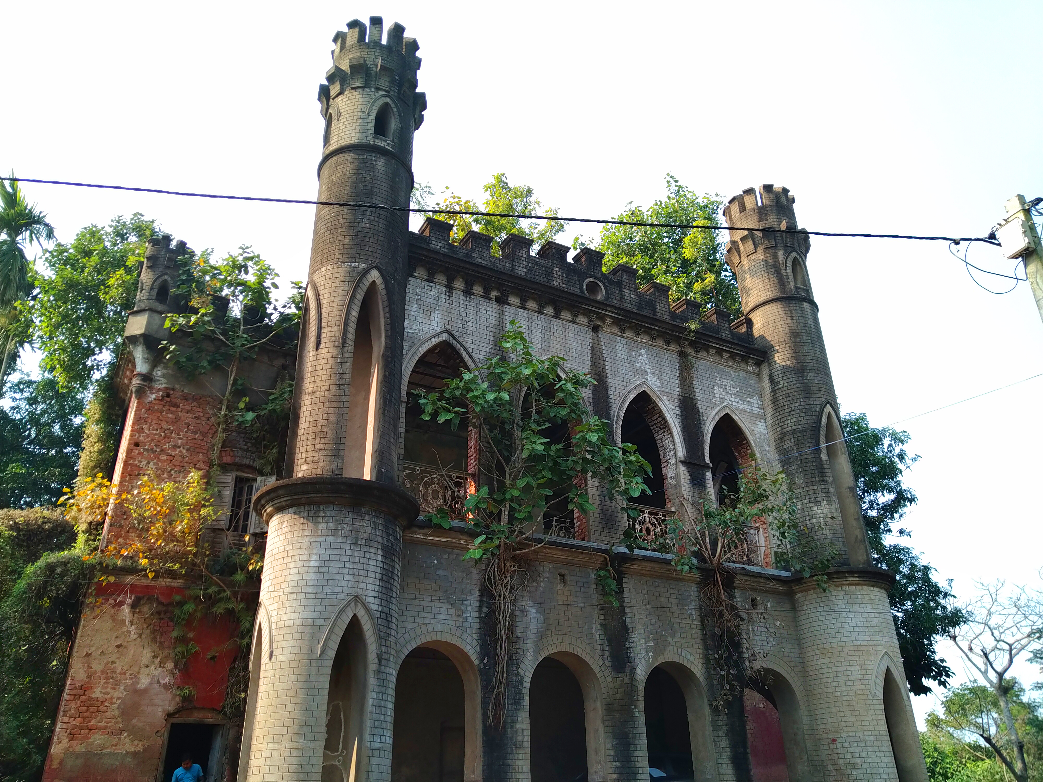 Dewan Bari at Mahishadal under Purba Medinipur district in West Bengal